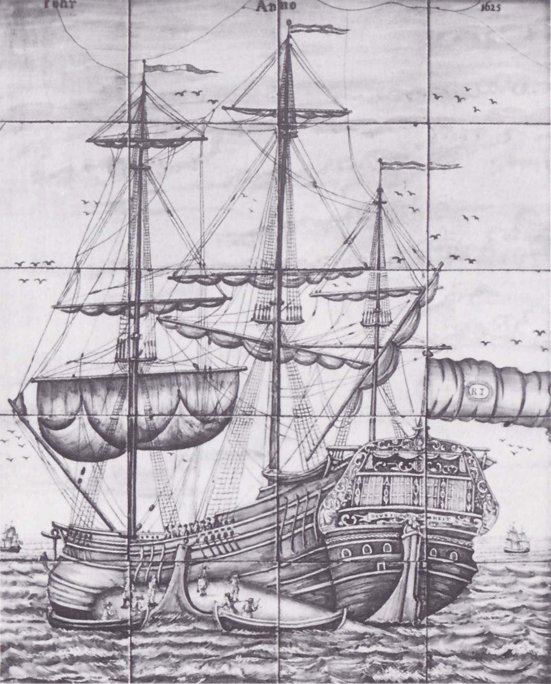 The frigate De Vrijheit of Altona catching whales. The initials on the flag ("R I") stand for Roluf Jansen, the captain. Jansen was from the island of Föhr. Some of the 20 tiles have been restored, and the date at the top has erroneously been changed from 1725 to 1625. Tiles of this sort were popular on the low-lying Frisian Islands because of their resistance to the effects of flooding.